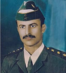 Young Abdrabu Mansur Hadi in Aden